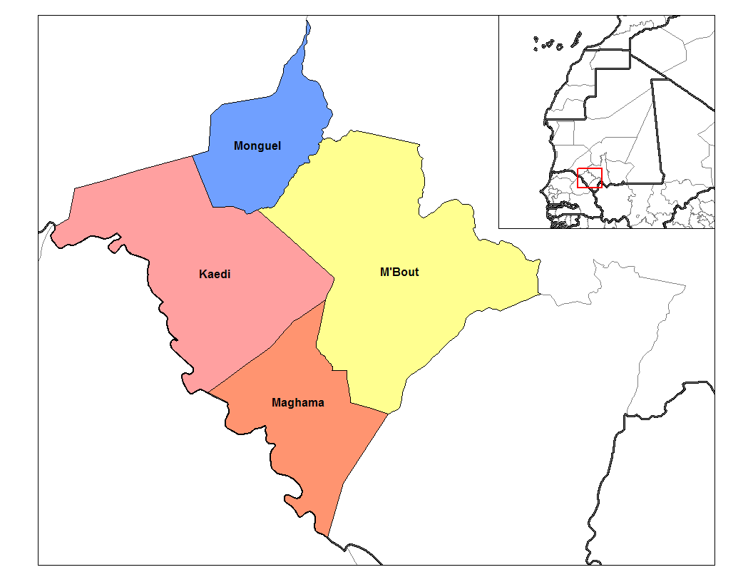 Map of the departments of Gorgol region of Mauritania. Created by Rarelibra 20:09, 28 September 2006 (UTC) for public domain use, using MapInfo Professional v8.5 and various mapping resources.